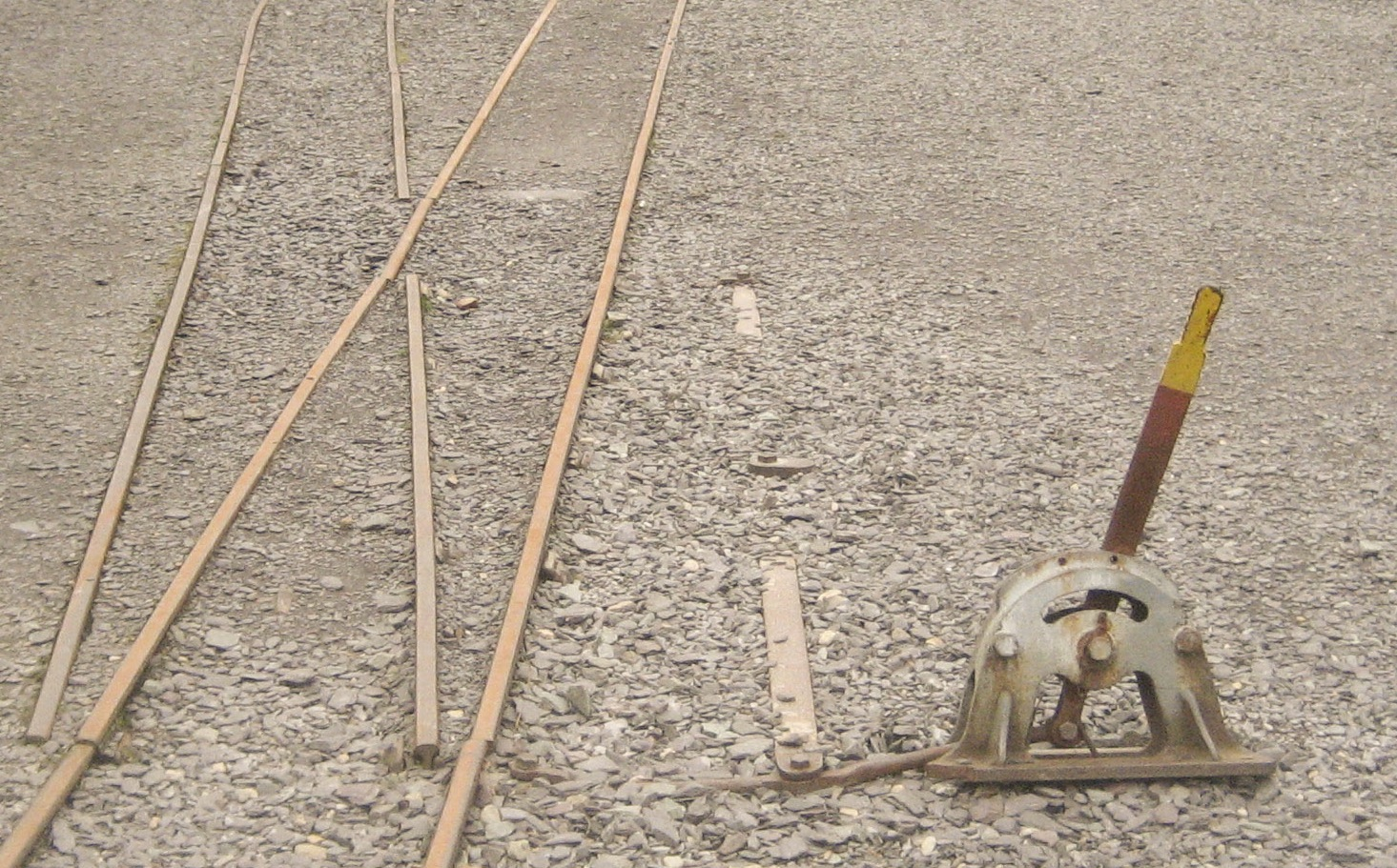 A stub switch at the Welsh Slate Museum, Llanberis